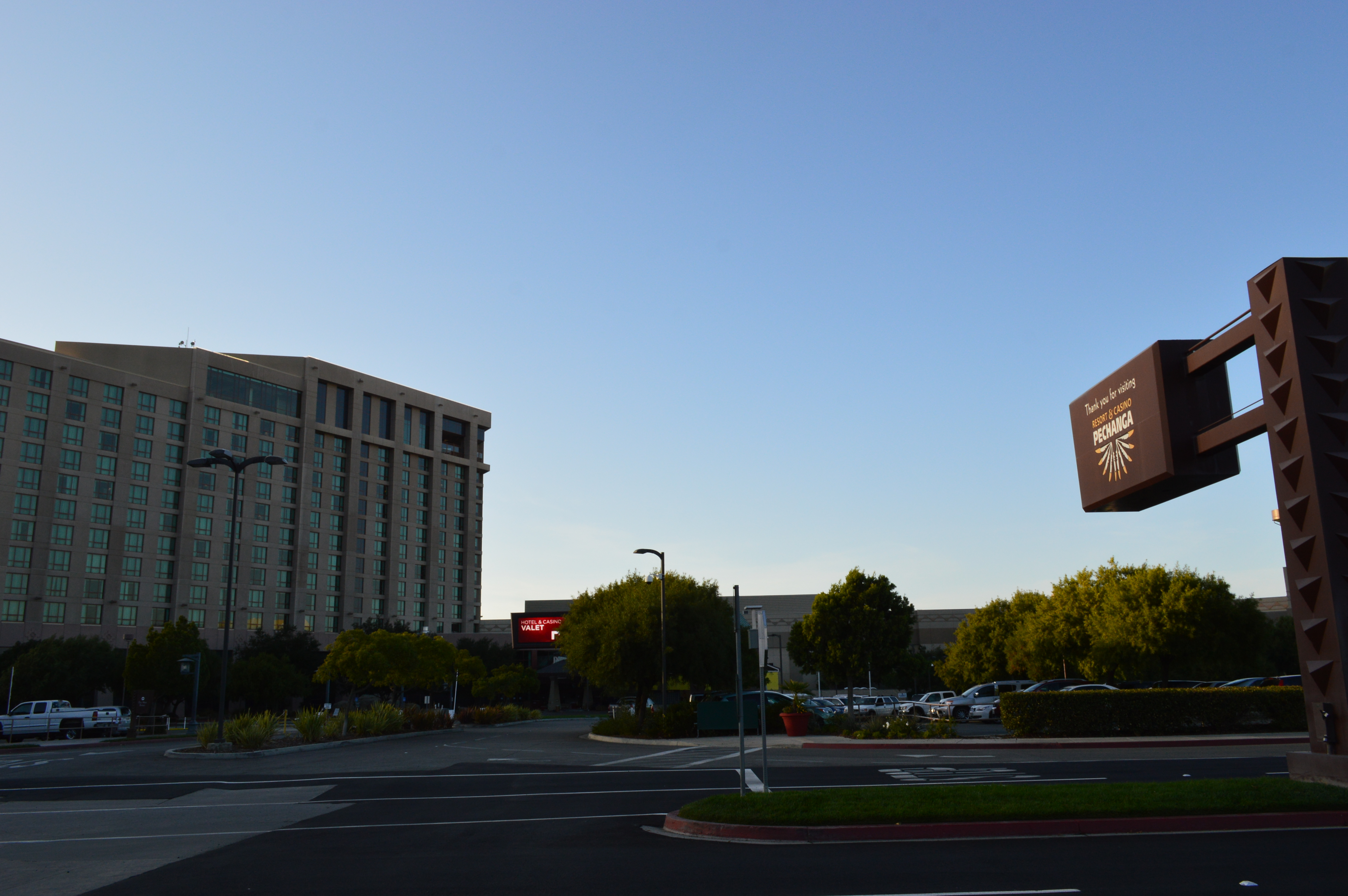 Pechanga Resort and Casino in Temecula, Riverside County, California. It's within the boundaries of the Pechanga Indian Reservation.